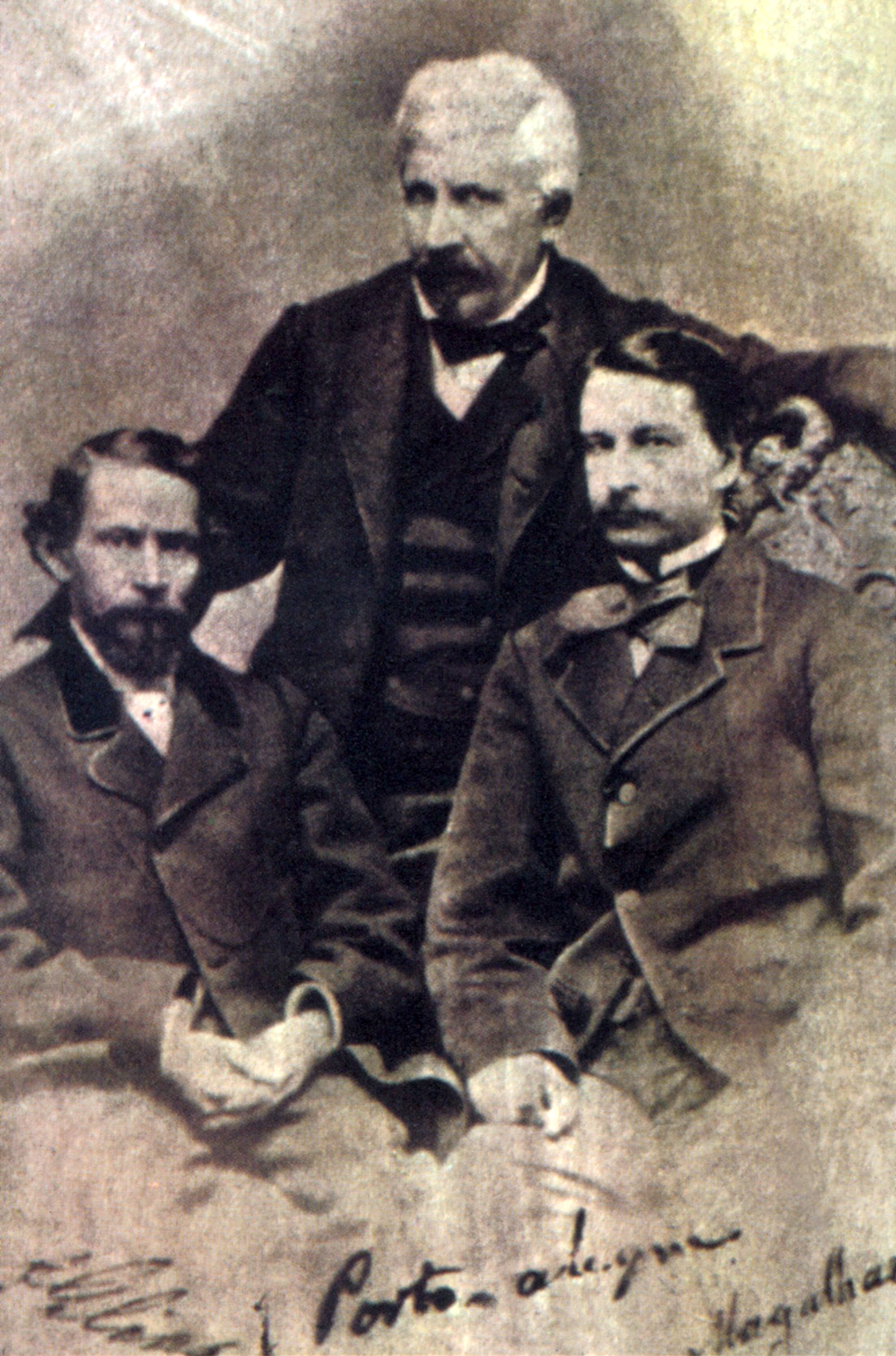 Three renowned 19th-century Brazilian writers. From left to right: Gonçalves Dias, Manuel de Araújo Porto-Alegre and Gonçalves de Magalhães (1858).